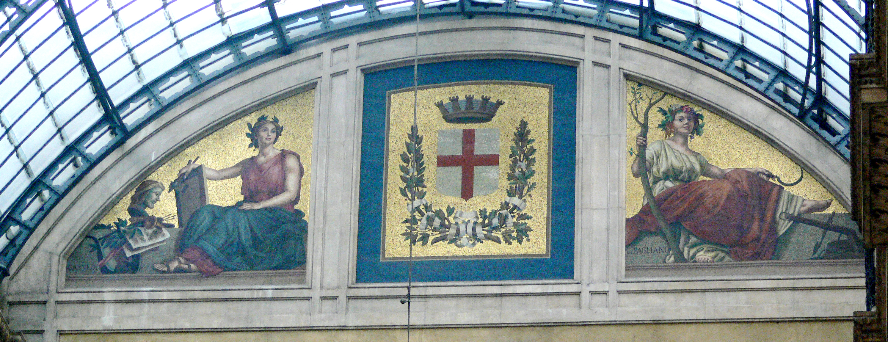 Mosaics in the Galleria Vittorio Emanuele II, Milano